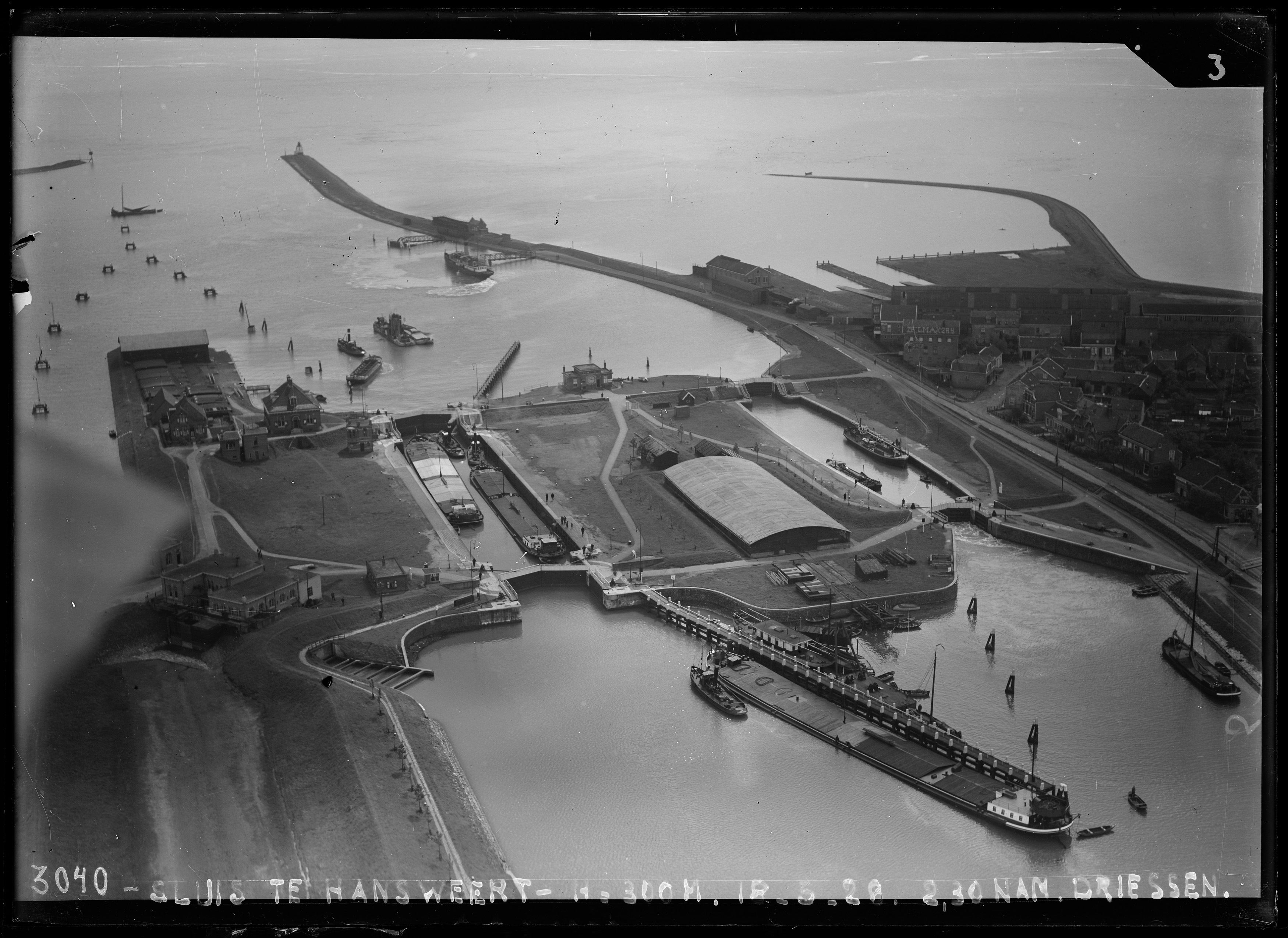 Aerial photograph of Hansweert, The Netherlands